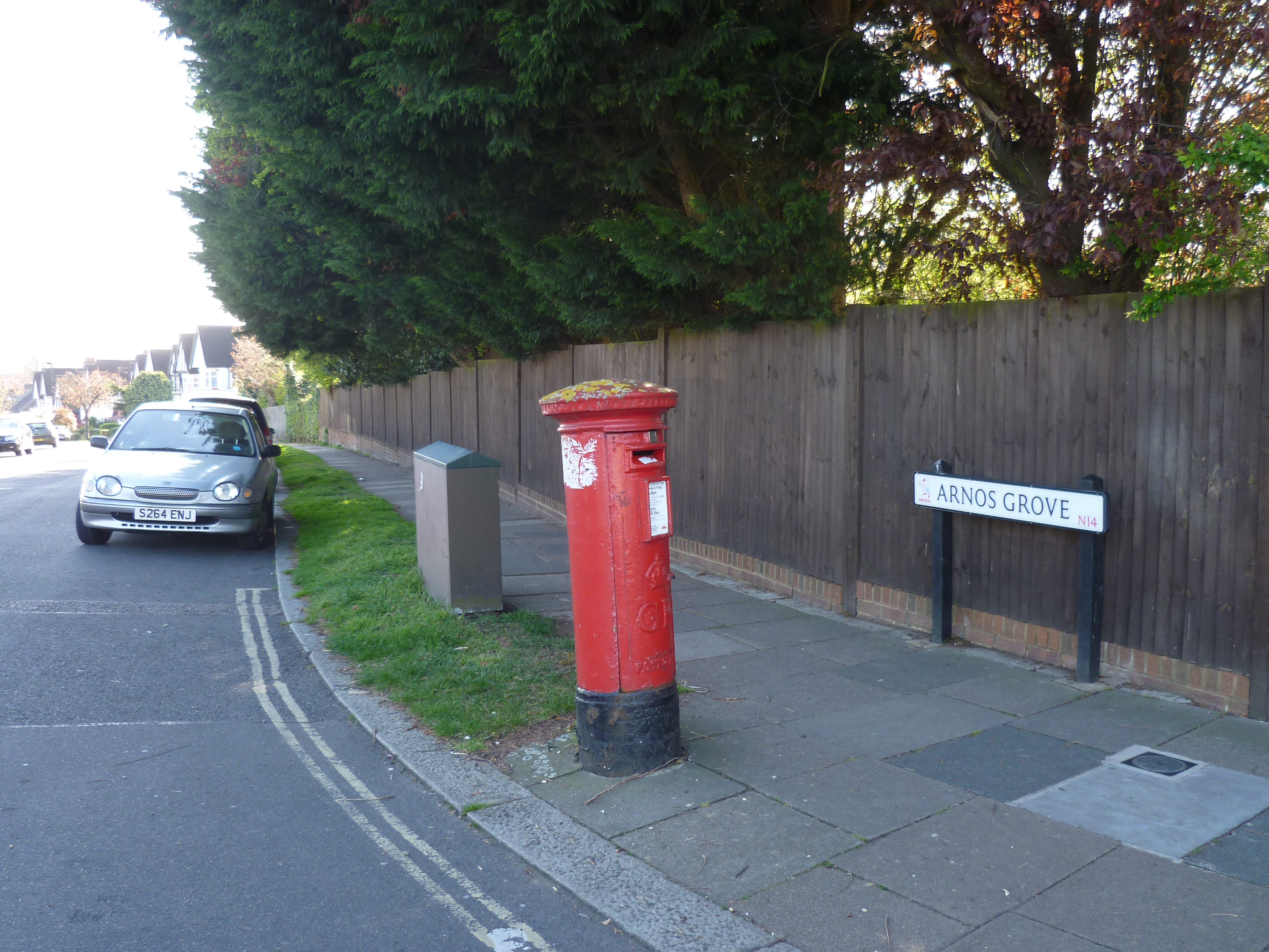 London